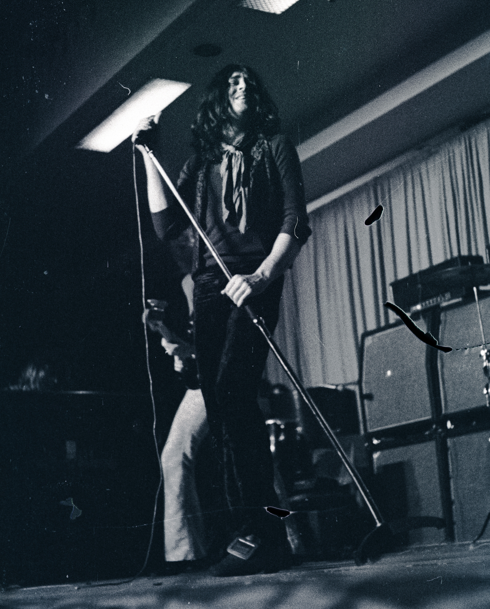 Deep Purple, December 1, 1970 Niedersachsenhalle, Hannover, Germany, The Touring Band 1970: Ian Gillan - Vocals, Ritchie Blackmore - Guitar, Jon Lord - Organ, Roger Glover - Bass Guitar, Ian Paice - Percussion